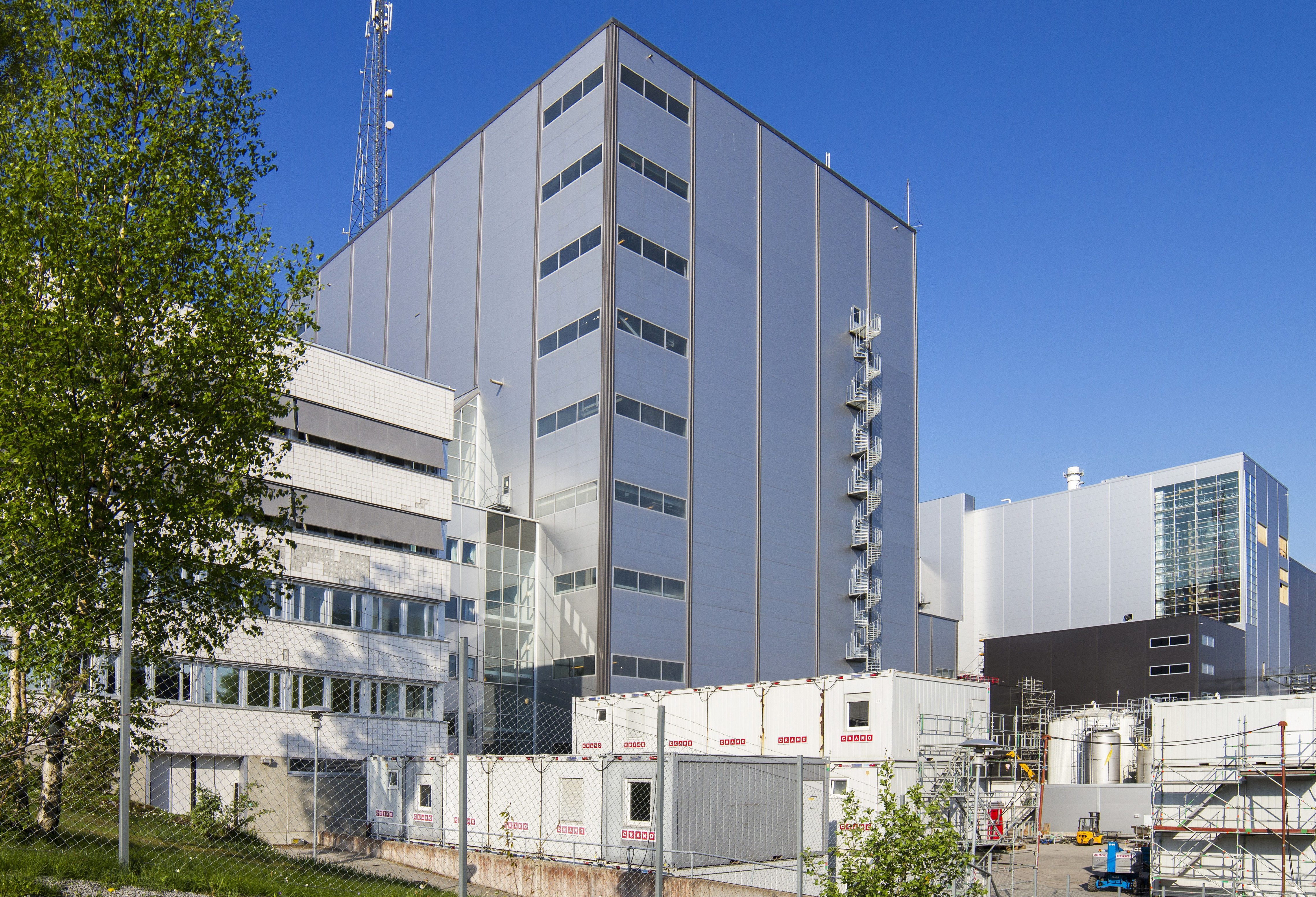 Brista power station in Marsta Sweden north of Stockholm